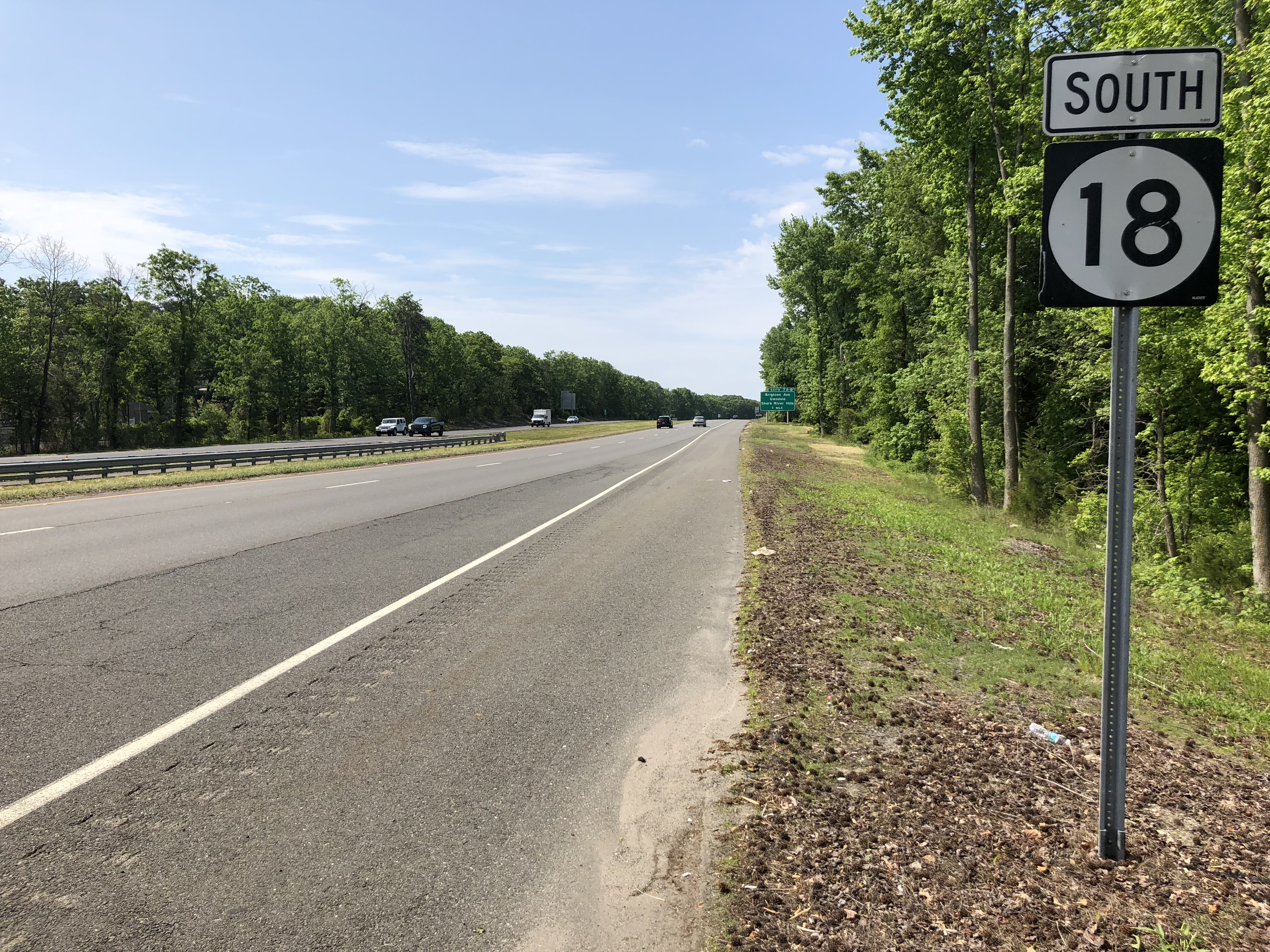 View south along New Jersey State Route 18 just south of Exit 8 in Neptune Township, Monmouth County, New Jersey